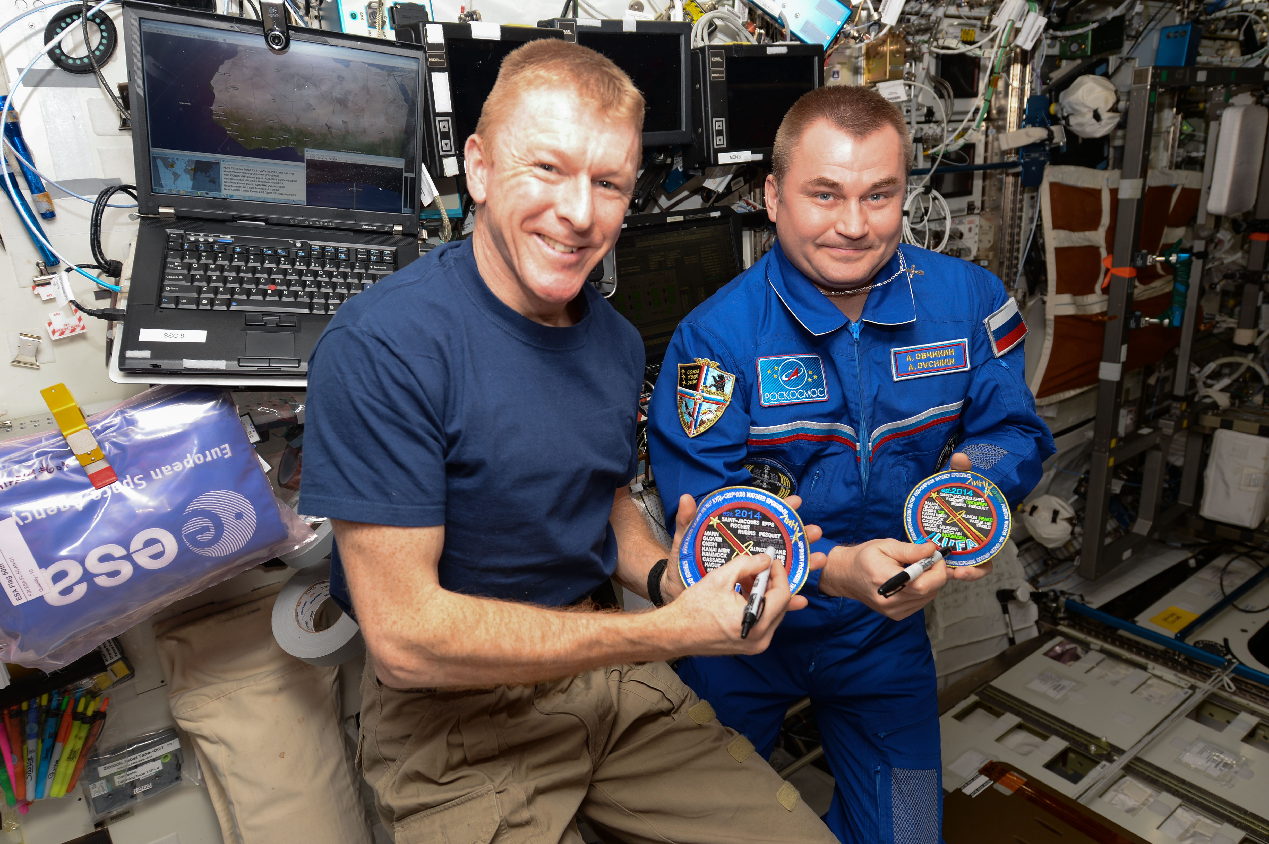 Expedition 47 crew members Tim Peake of ESA (European Space Agency) left, and Alexey Ovchinin of Roscosmos cross their names off the ceremonial "League of Unflown Astronauts" patch. Both are on their first spaceflight and were the 221st and 222nd individuals to visit the International Space Station, respectively.